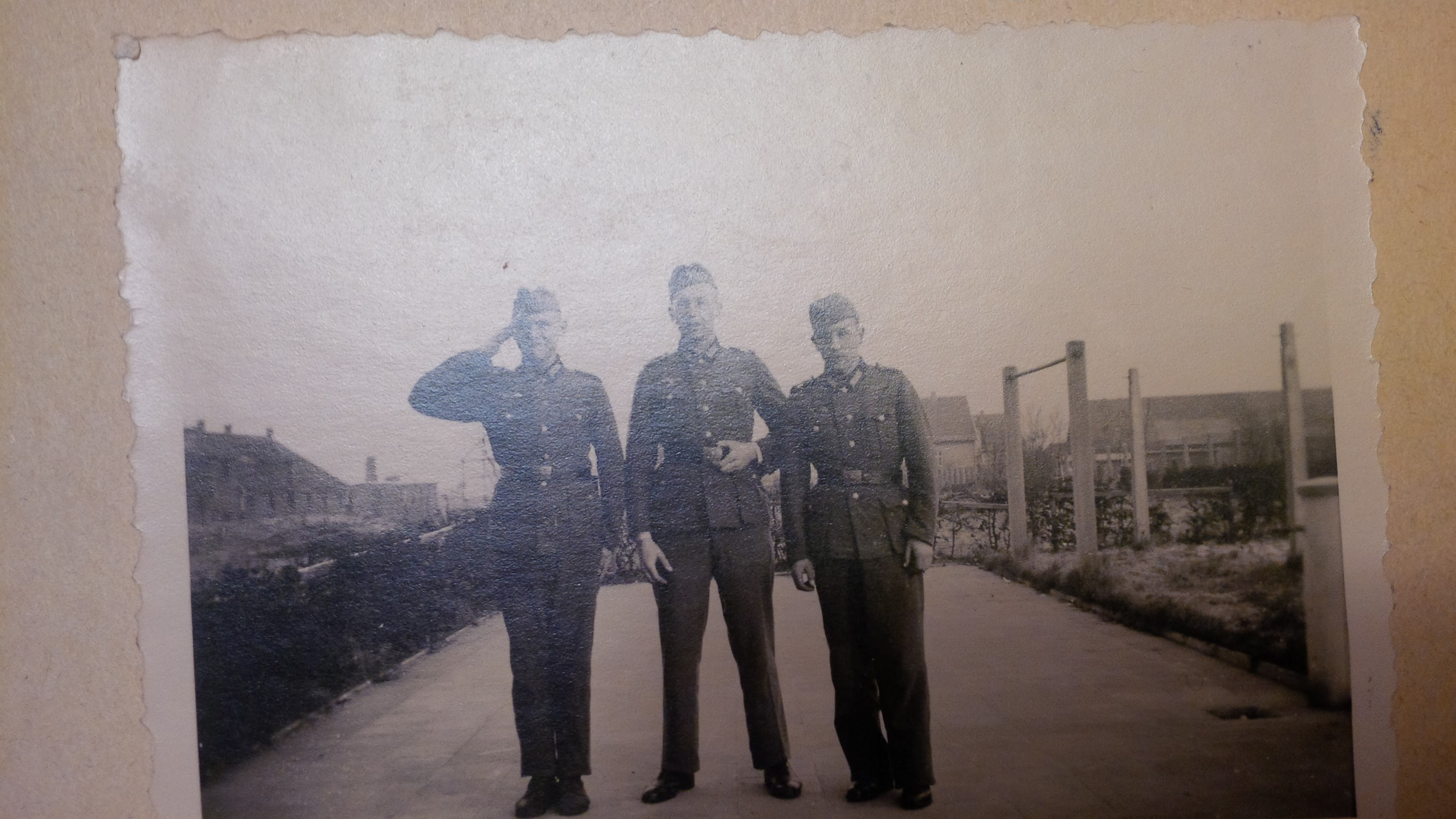 Only existing photo showing Karl Jr. In WWII after being inducted into the German army ad a Physician Officer.